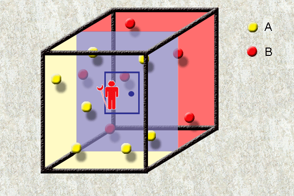 Modified from Image:Demonio_Maxwell.png.